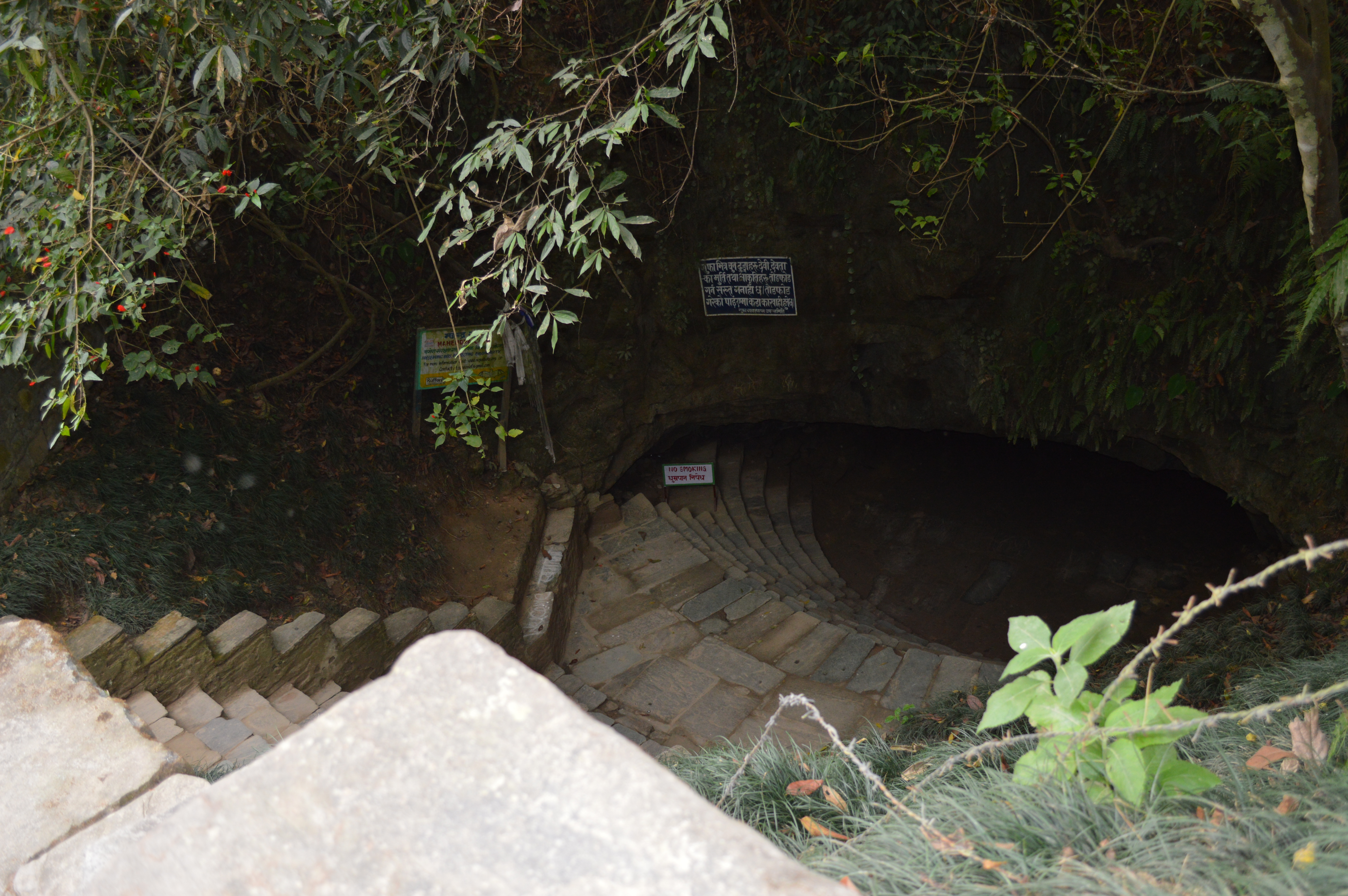 A natural cave in Pokhara, Kaski